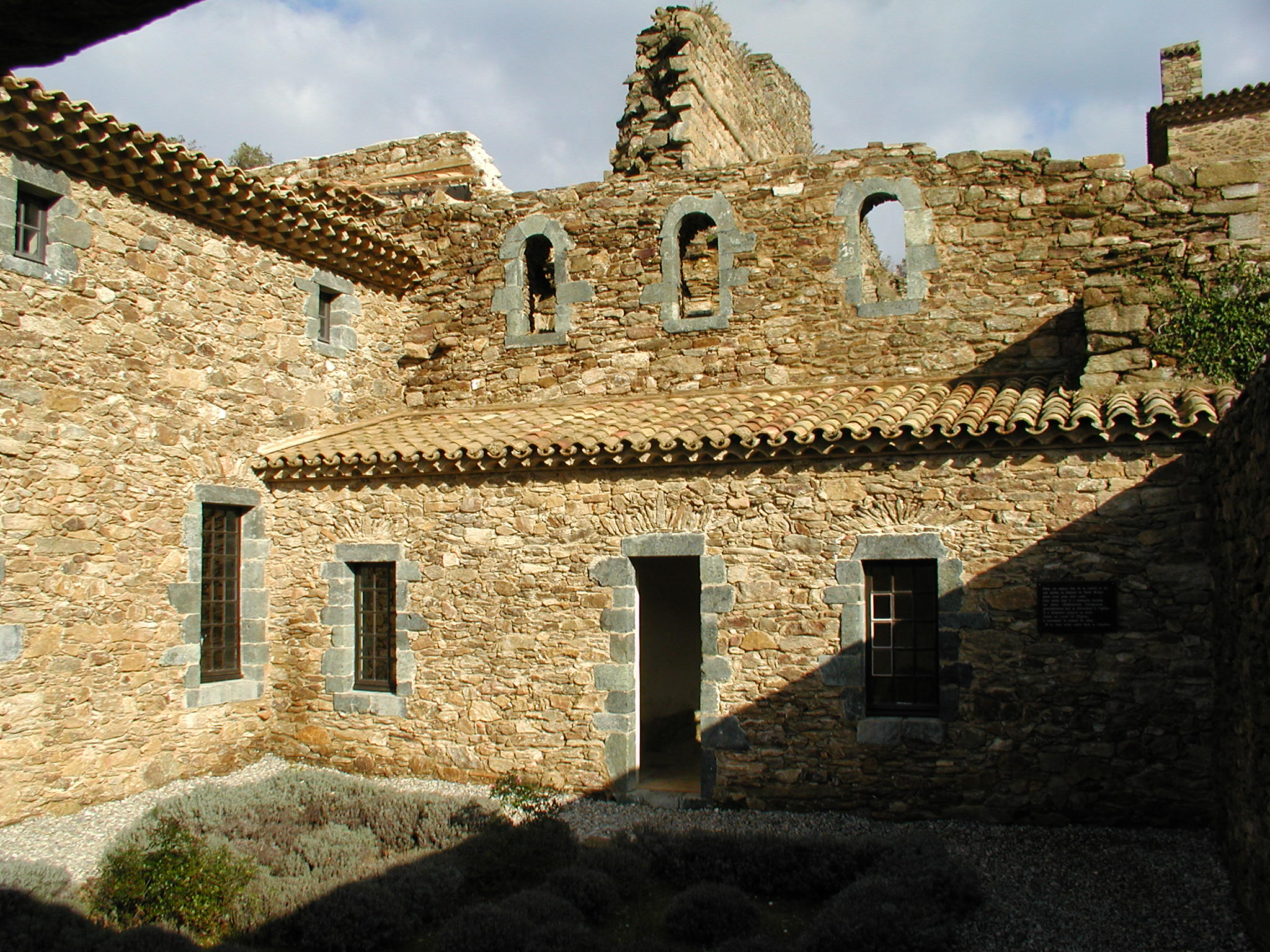 Chartreuse de la Verne - A friars housing with garden